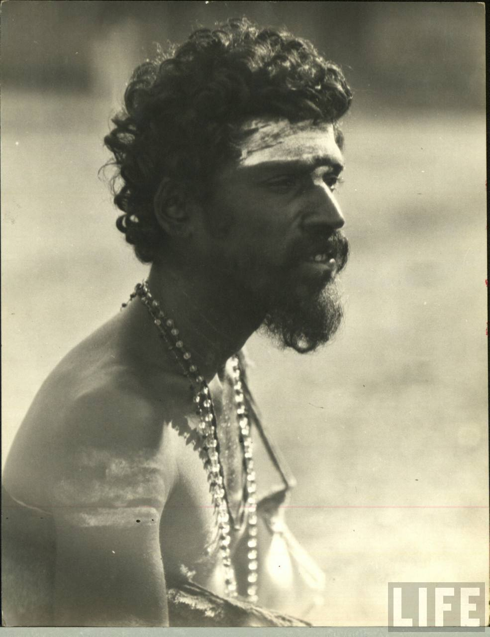 A Hindu Sadhu in an unidentified location.